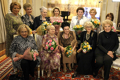 MOSCOW. Informal function honouring Lyudmila Zykina on her birthday was attended by many of the singer’s close friends, invited by Svetlana Medvedeva.